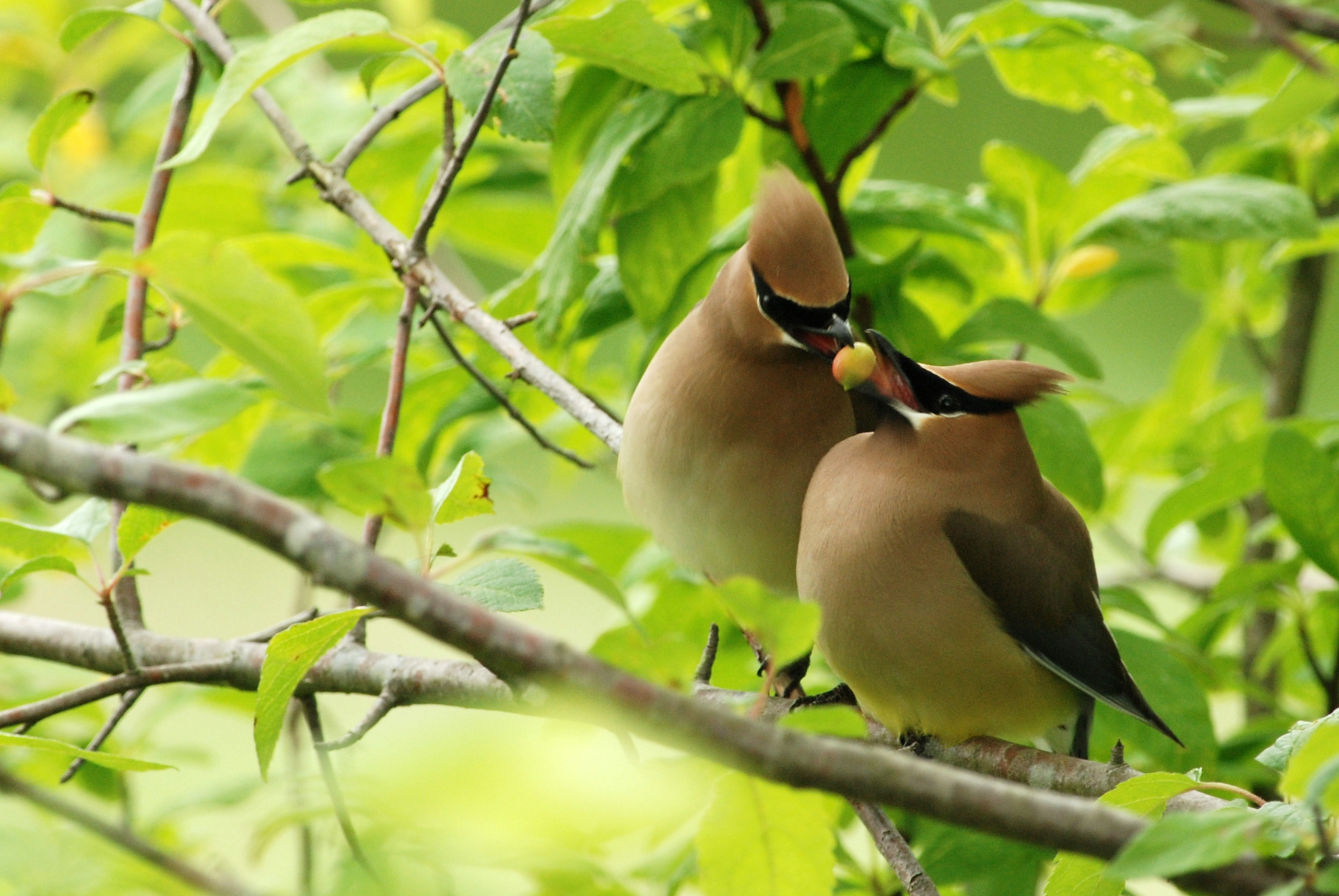 Cedar waxwings (Bombycilla cedrorum) passing a berry back and forth